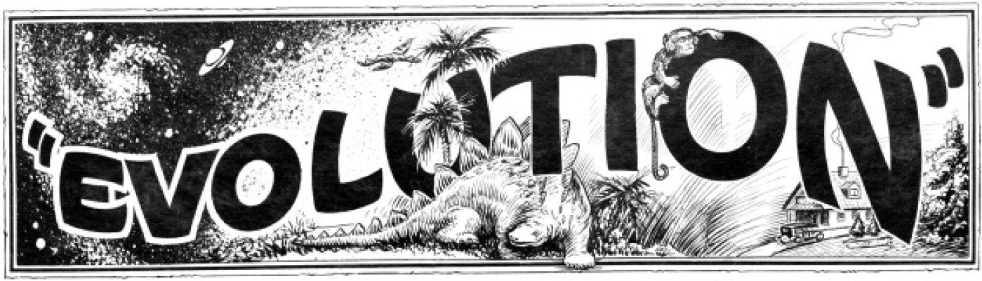 Evolution, 1925 film by Max and Dave Fleischer, banner. While the banner was used to promote the 1925 film, it has already been published in 1923 for the film Evolution. From the Birth of the Planets to the Age of Man